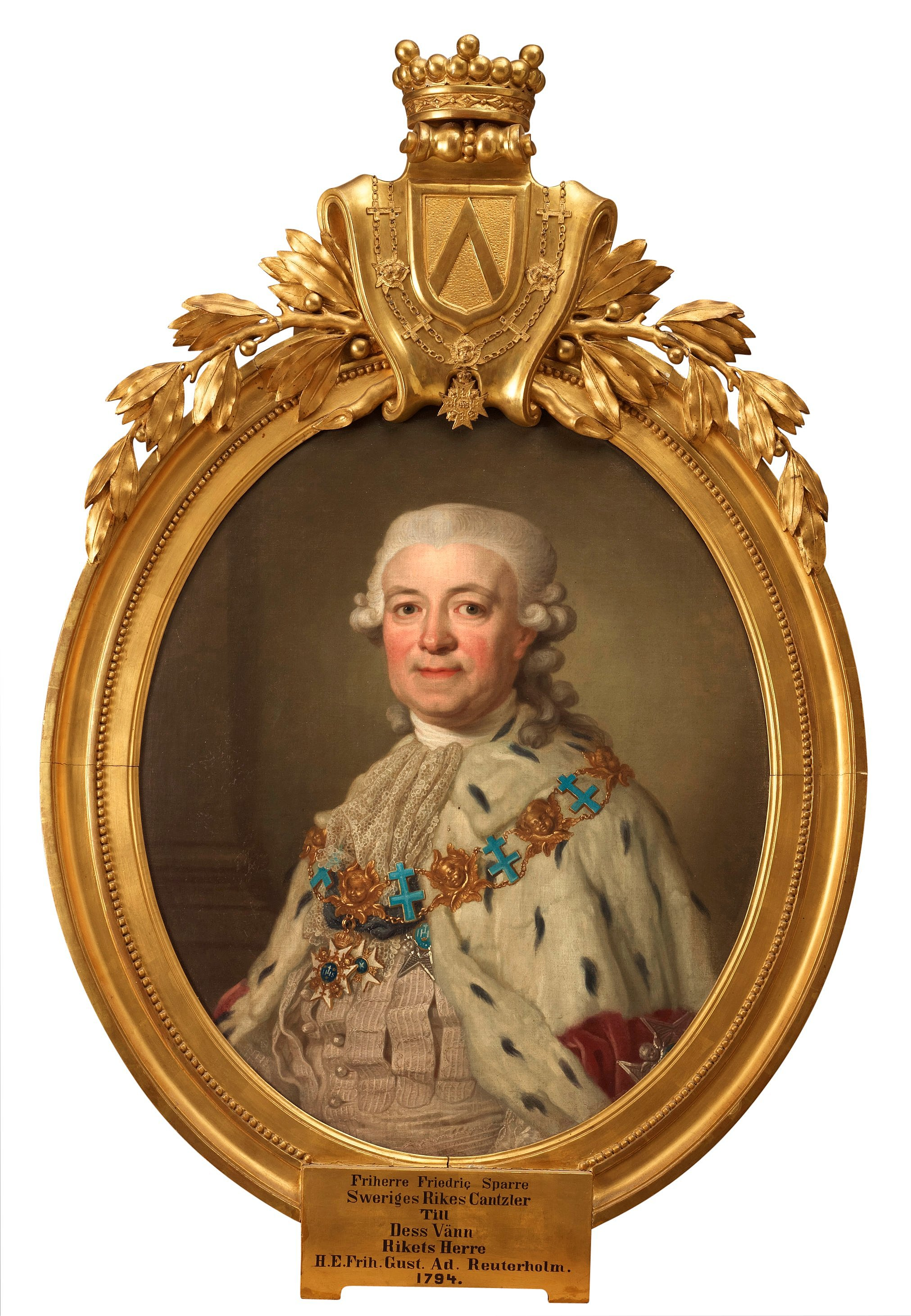 Count Fredrik Sparre (1731-1803), Lord High Chancellor of Sweden 1792-1797.